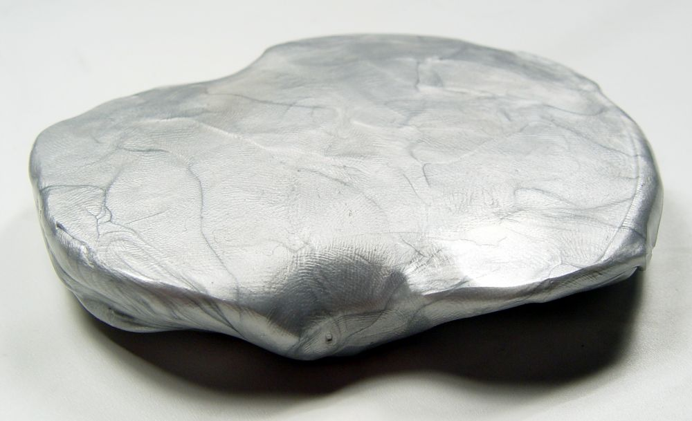 Intelligent plasticine - Metallic